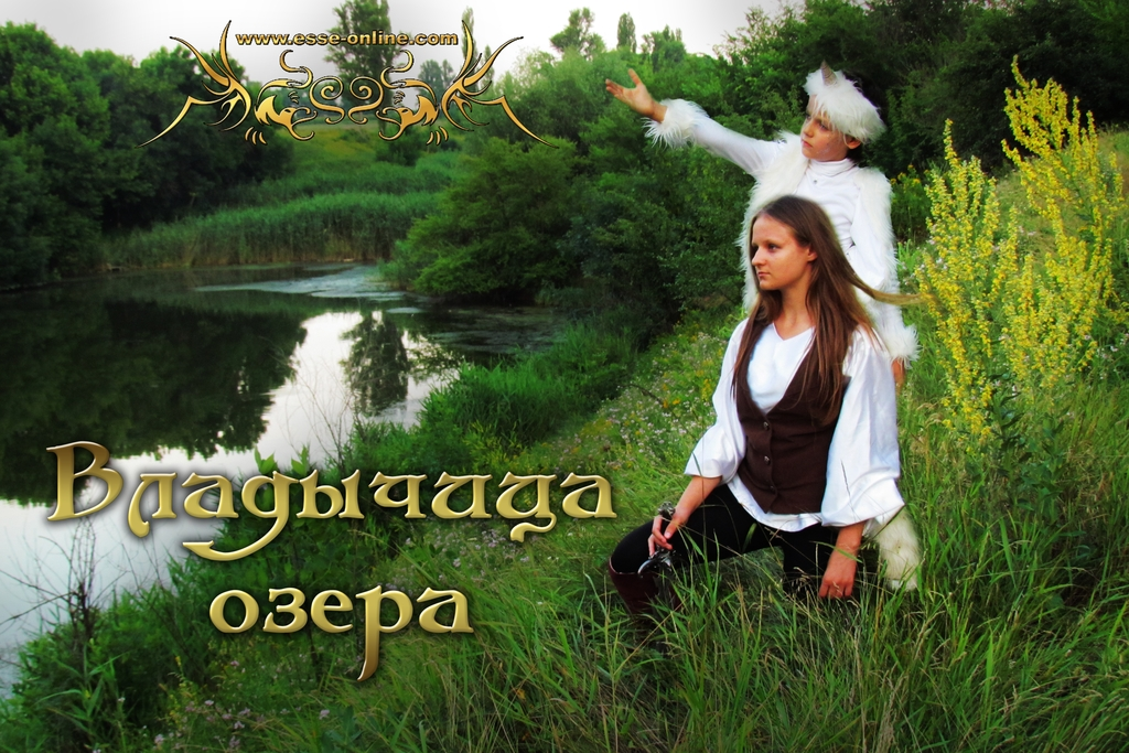 "Lady of the Lake" ("Lake mistress"). Fantasy rock musical of group "ESSE" -"The Road with No Return", based on the saga of A. Sapkowski "The Witcher". Official poster. Scene 13. Symphonic rock-group "ESSE". Darya Pronina. Cirilla Fiona Elaine Riannon (Ciri, Zireael, Swallow), Mikhail Pronin (Unicorn). (Poster - Anastasia Vorotnikova. Photo - Yuri Osadchy.)